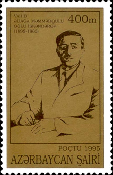 Stamp of Azerbaijan